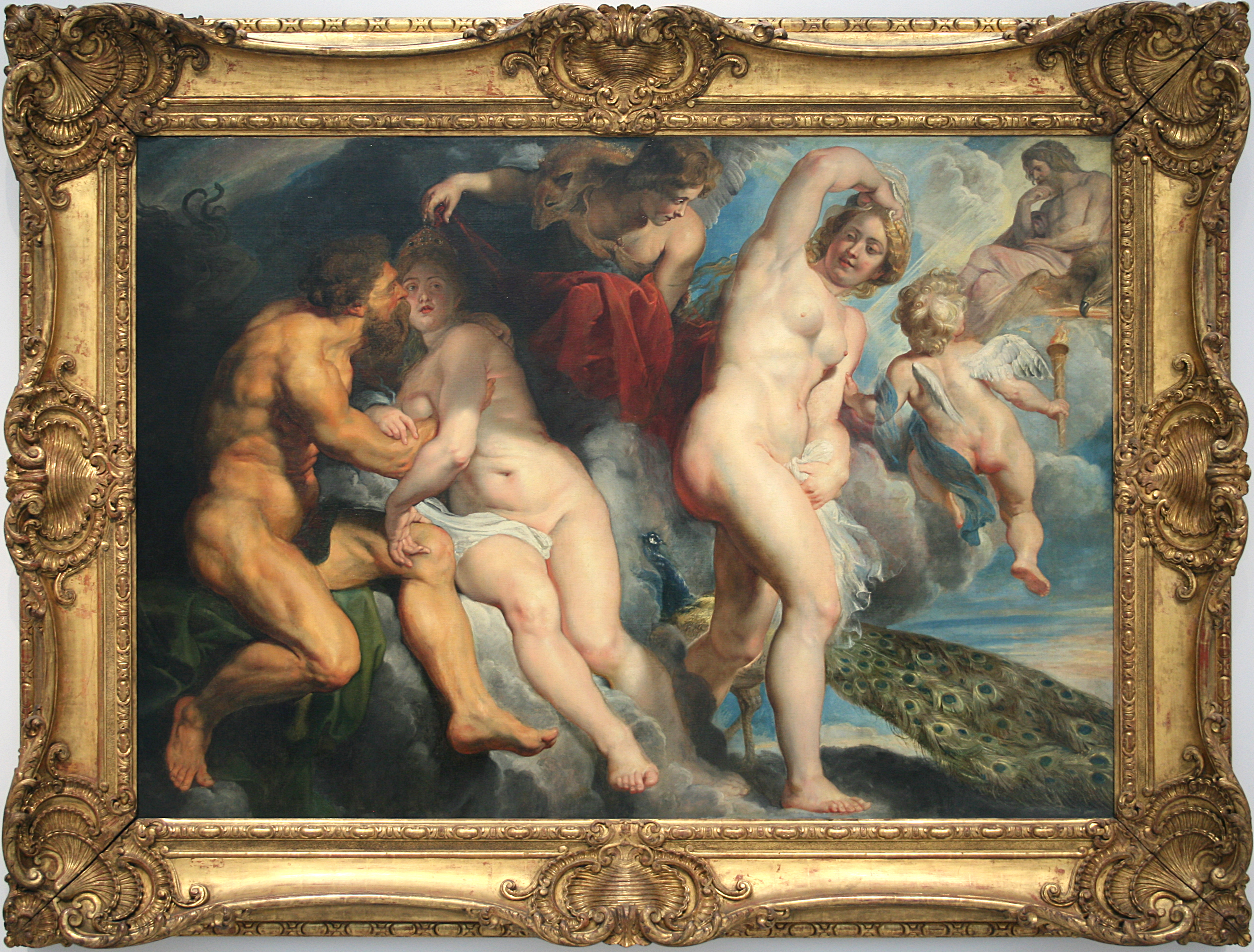 Ixion king of Lapiths deceived by Juno he wanted to seduce, oil on canvas by Peter Paul Rubens (1615) pictured in the "Galerie du Temps" of Louvre-Lens museum where it is exposed temporarily.